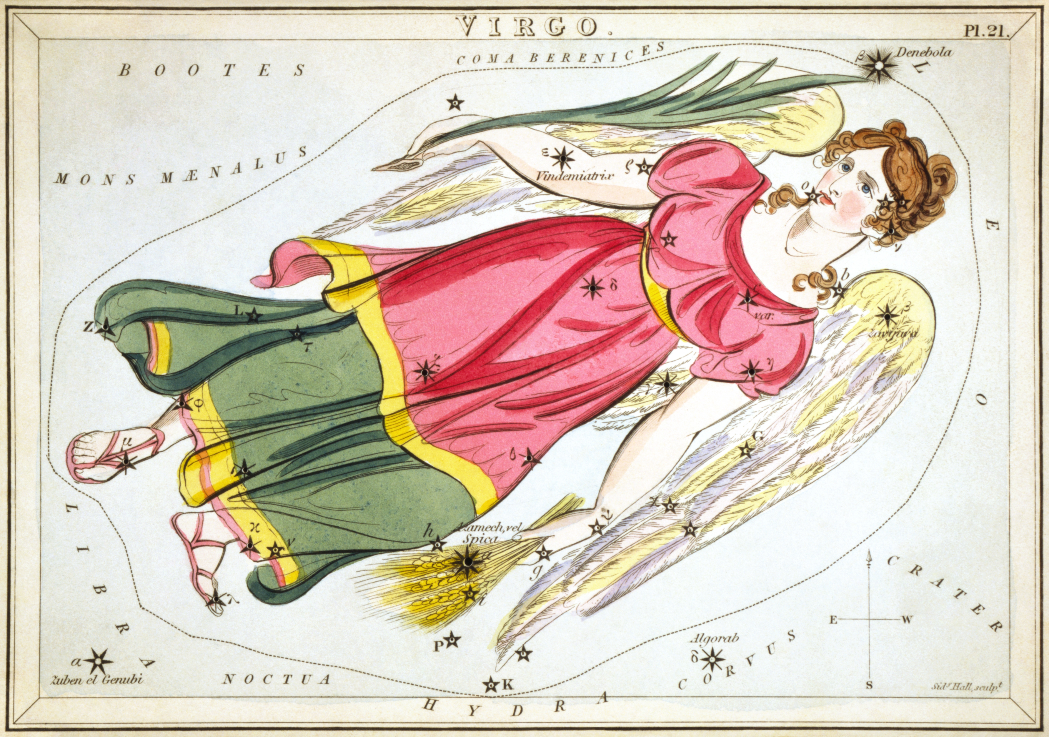 "Virgo", plate 21 in Urania's Mirror, a set of celestial cards accompanied by A familiar treatise on astronomy ... by Jehoshaphat Aspin. London. Astronomical chart, 1 print on layered paper board : etching, hand-colored.